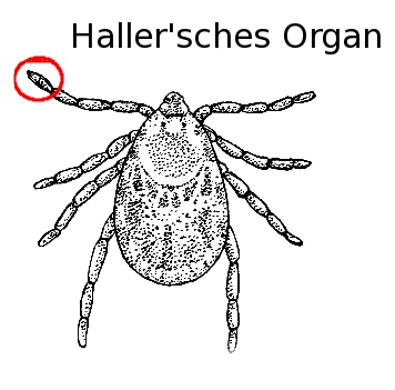 Line art drawing of a tick